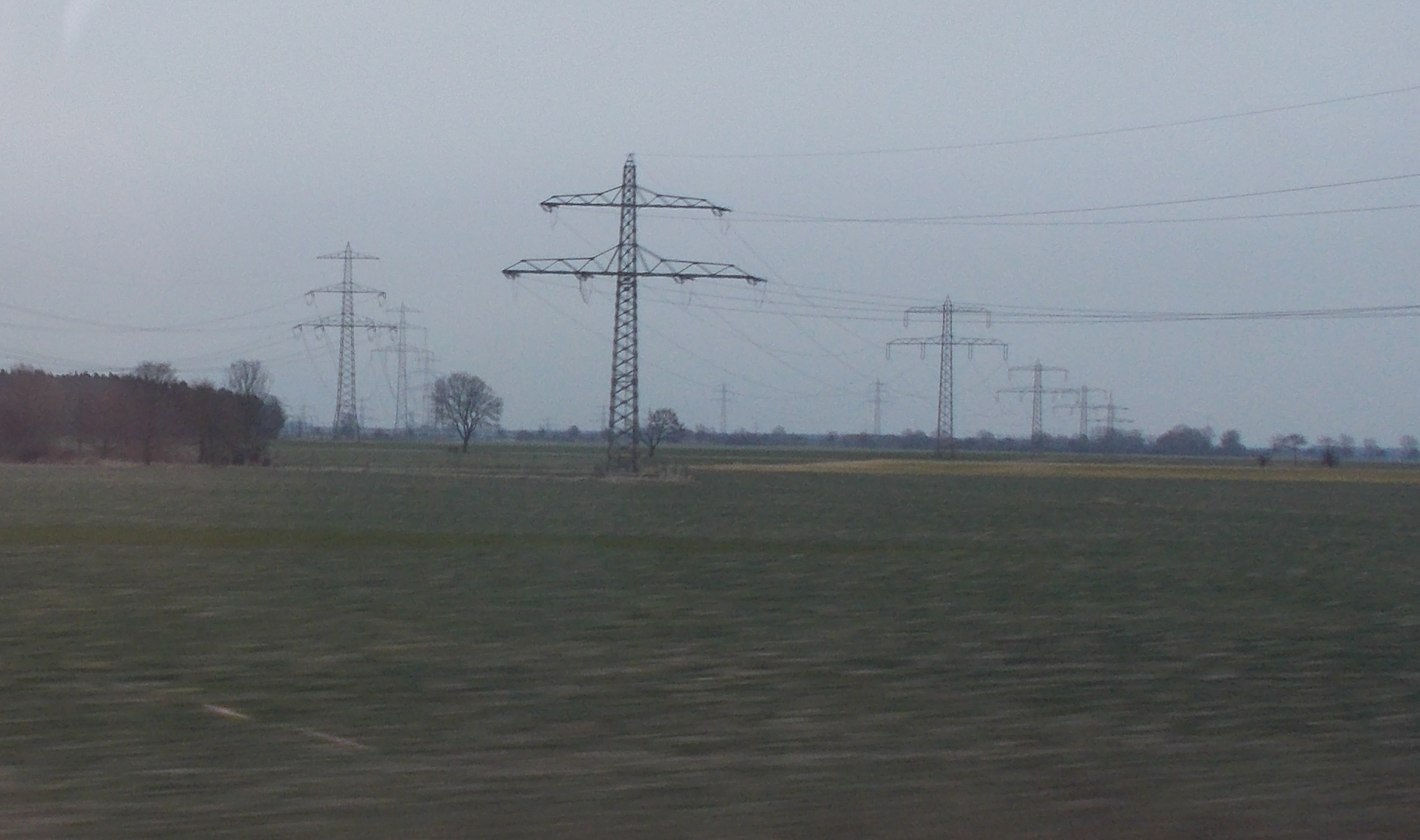 Wahle–Algermissen 380 kV power line (left; no. 3026) and Lehrte–Wahle 220 kV power line (right; no. 2024) northeast of Sierße in Vechelde; view from a train in eastern direction (towards Wahle substation)